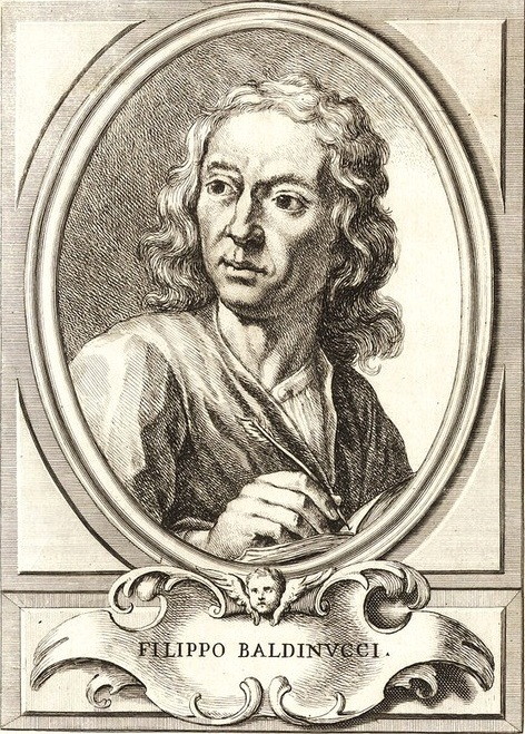 Portrait of the Italian painter and historian Filippo Baldinucci. In "Notizie de' professori del disegno da Cimabue in qua" (Firenze, 1681)